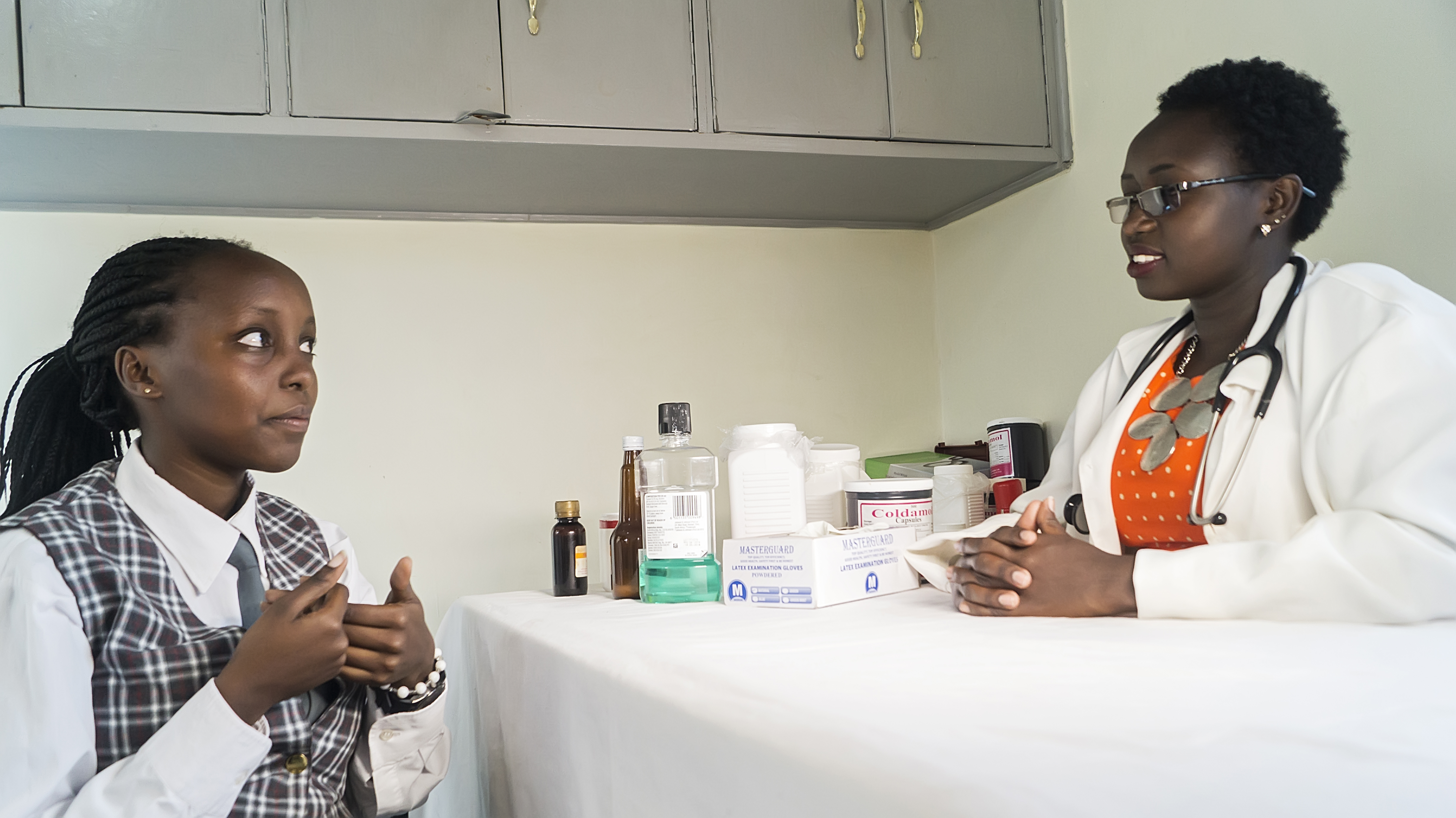 School nurse checks student's health This is an image of "African people at work" from Kenya